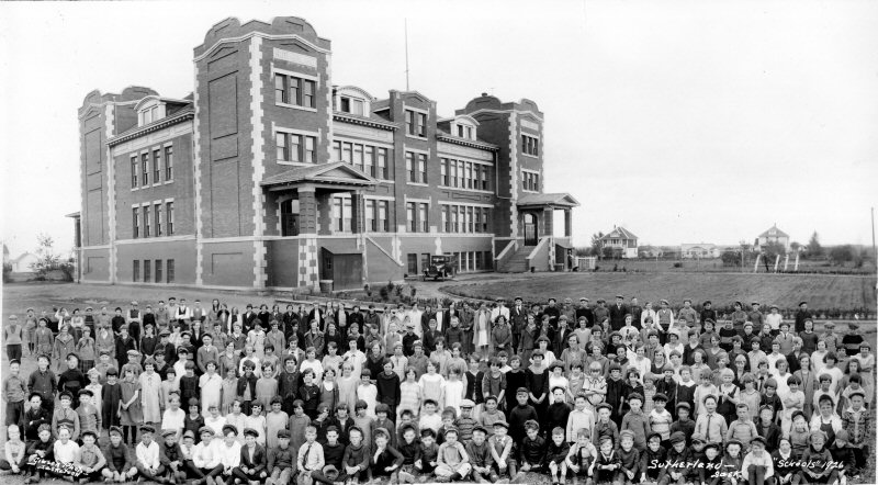 Students and staff of the original Sutherland School, in the town of Sutherland, Saskatchewan. The town would become a neighbourhood of Saskatoon in 1956, and the school was demolished in 1967. A new school was built on its site.